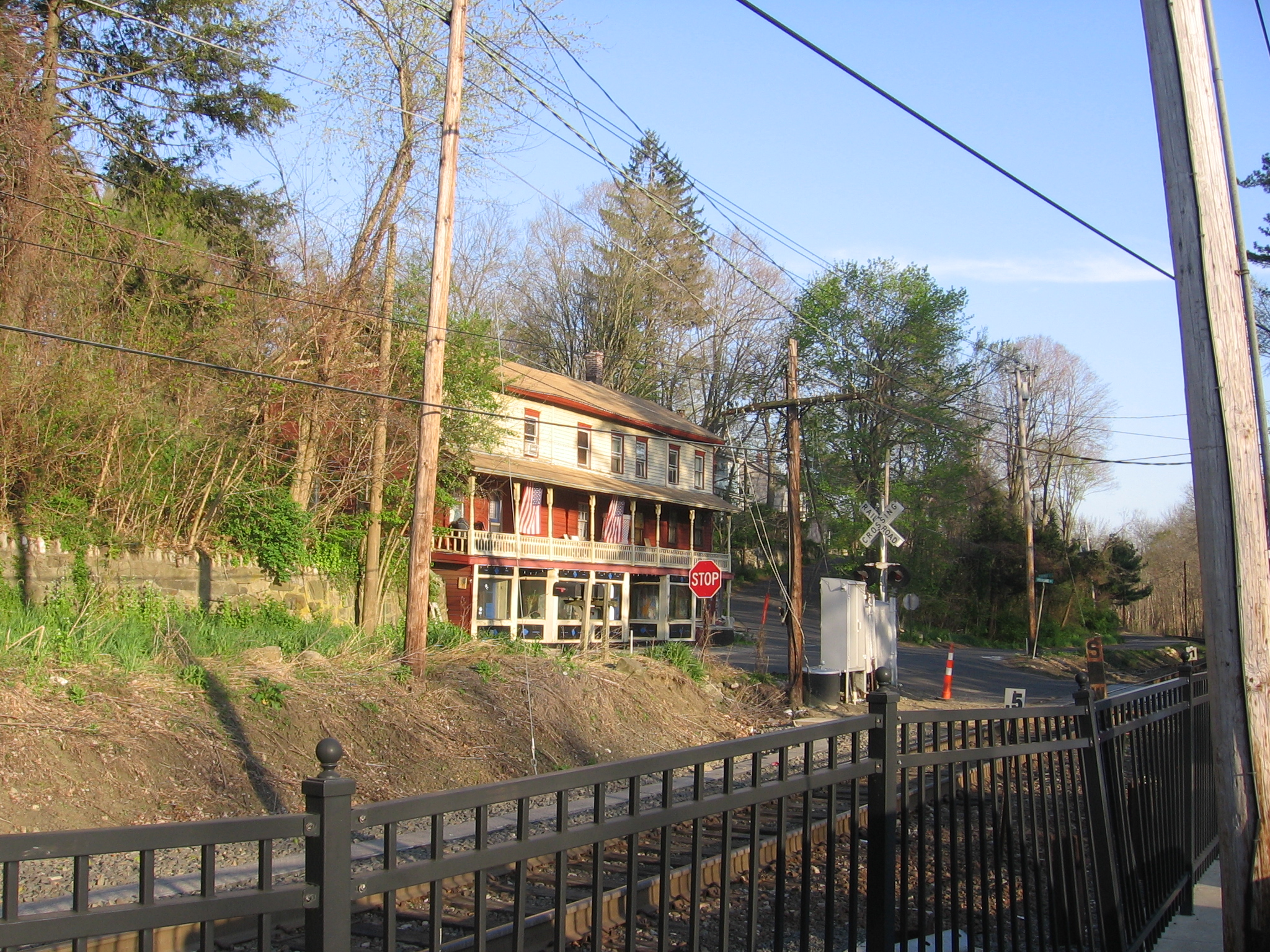 This old building next to the Branchville Station on the Danbury Branch has an extensive porch and storefronts. It is listed on the NRHP as Branchville Railroad Tenement.